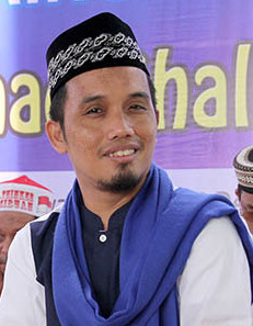 MEDAN - Commemoration of the Birthday of the Prophet Muhammad SAW which was held by the North Sumatra Provincial Government (Pemprovsu) this year was deliberately held in several places, unlike the previous year. This was done so that the North Sumatra Provincial Government can be closer to the community. "The series of Islamic religious holidays that we usually do in one place in Medan, but today we change, we come to sub-districts and districts / cities. So that people can be closer to us, "said the Governor of North Sumatra, Tengku Erry Nuradi, on the Anniversary Commemoration of the Prophet Muhammad who brought the cleric Muhammad Nur Maulana (cleric Maulana) at Al Iman Mosque, Medan Marelan, Tuesday (12/12).